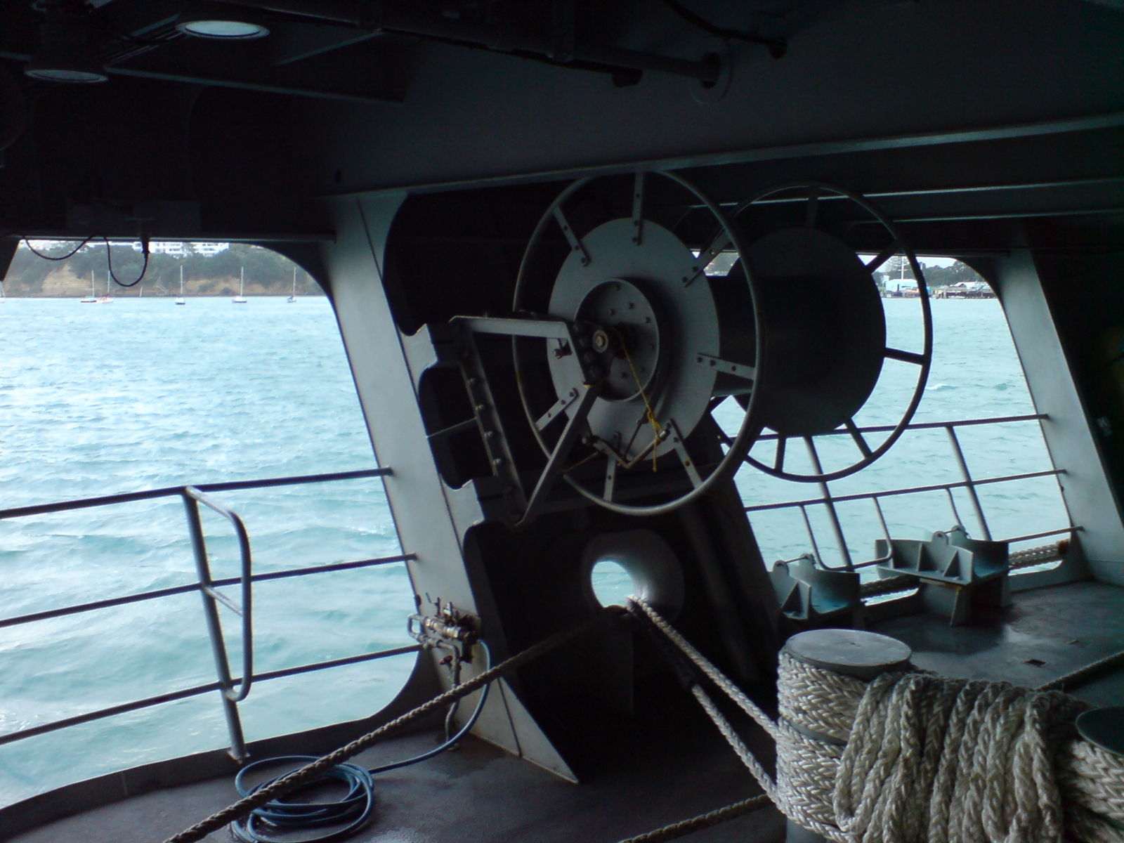 The open-sided deck under the helicopter landing platform of the HMNZS Te Kaha (frigate) at the Devonport Naval Base, North Shore City, Auckland, New Zealand.